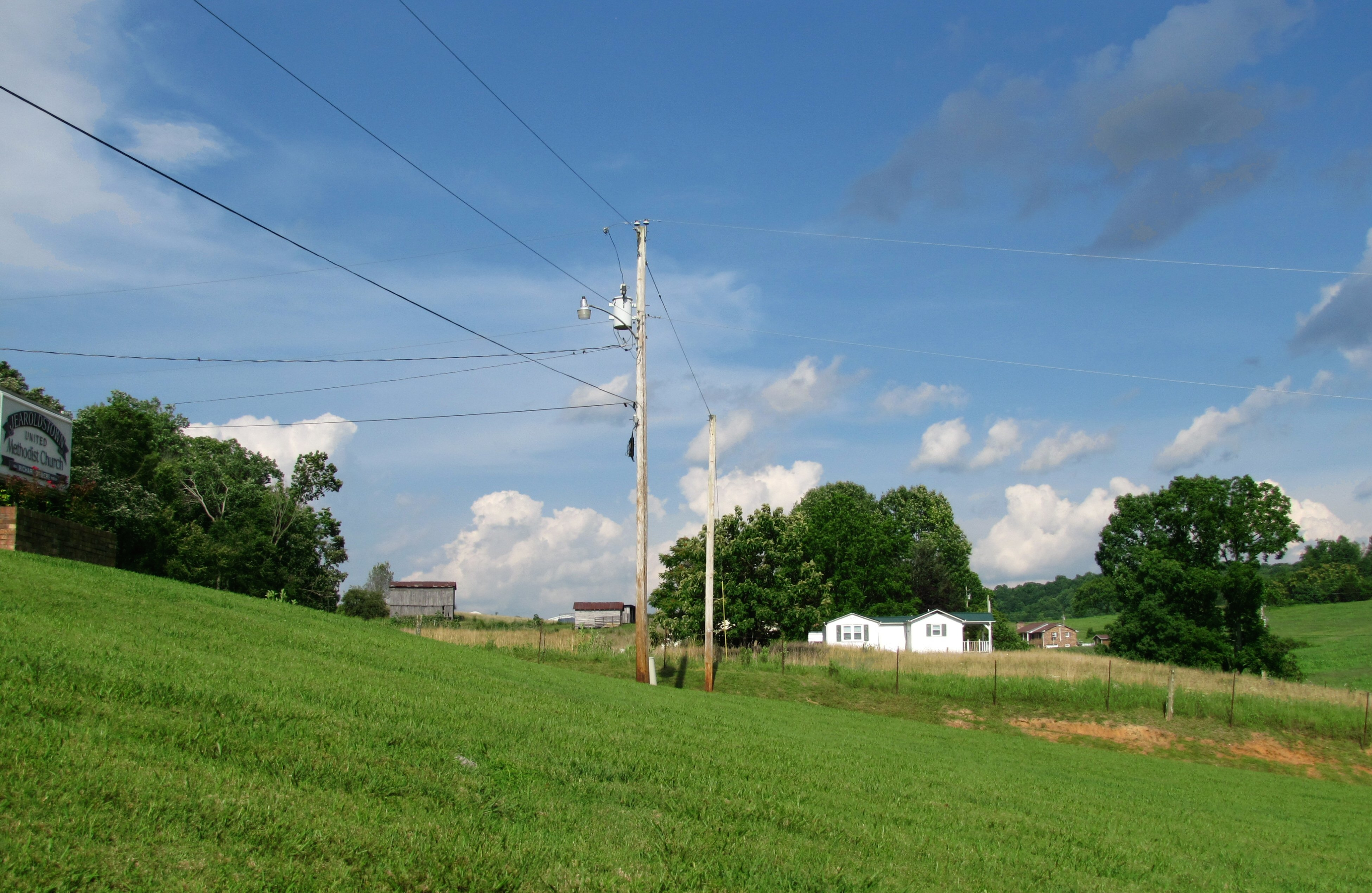 The Jearoldstown community of Greene County, Tennessee, United States, viewed from the Jearoldstown United Methodist Church driveway.